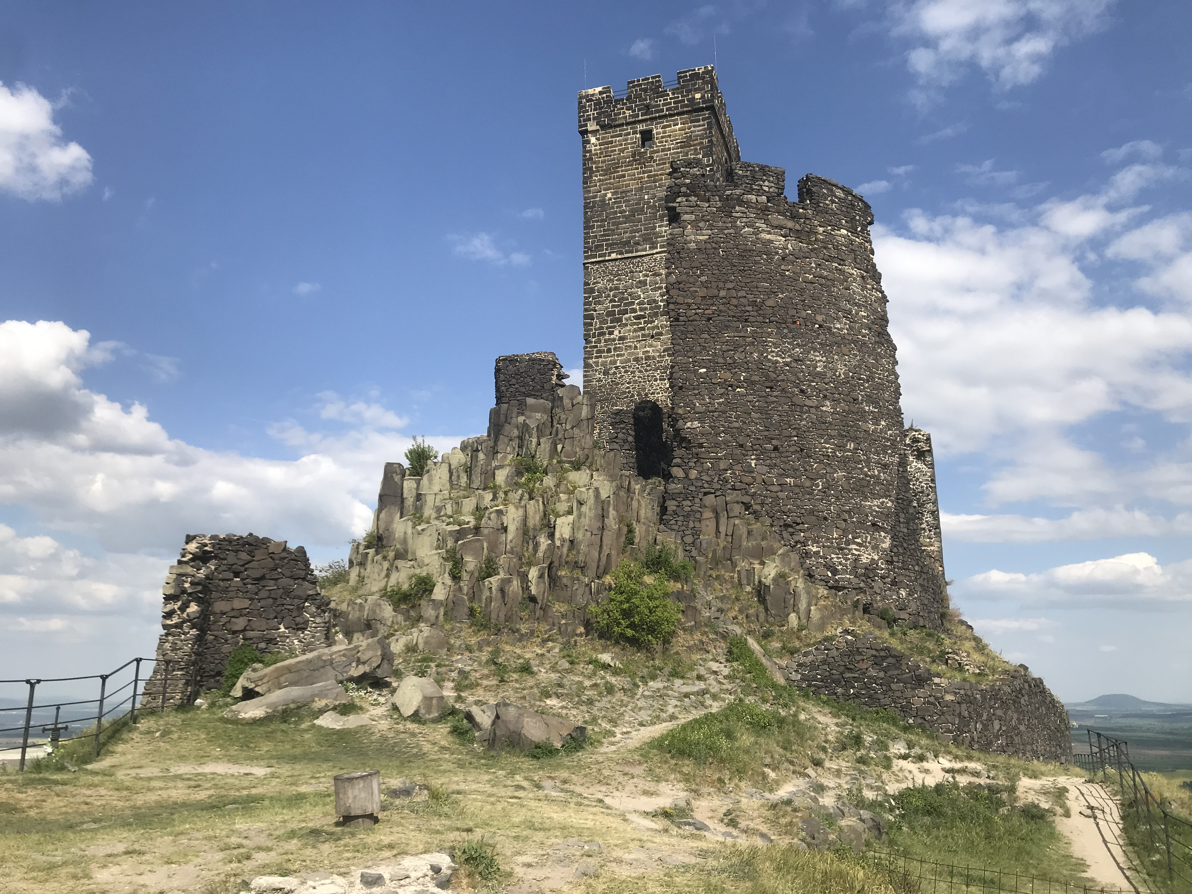 Close-up view of the higher tower of the Hazmburk castle ruins, Czech Republic.